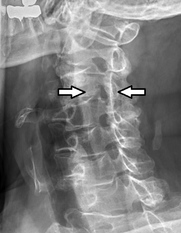 Projectional radiograph of the neck of a 79 year old man presenting with pain at the nape and left shoulder, and radiating to the left arm. It shows stenosis of the left intervertebral foramen between cervical vertebra 3 and 4, indicating radiculopathy of cervical spinal nerve 4.